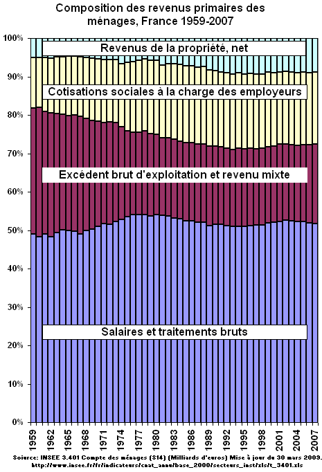 Composition of household primary incomes, France, 1959-2007